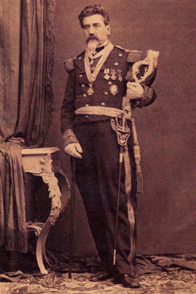 General P. Ampudia